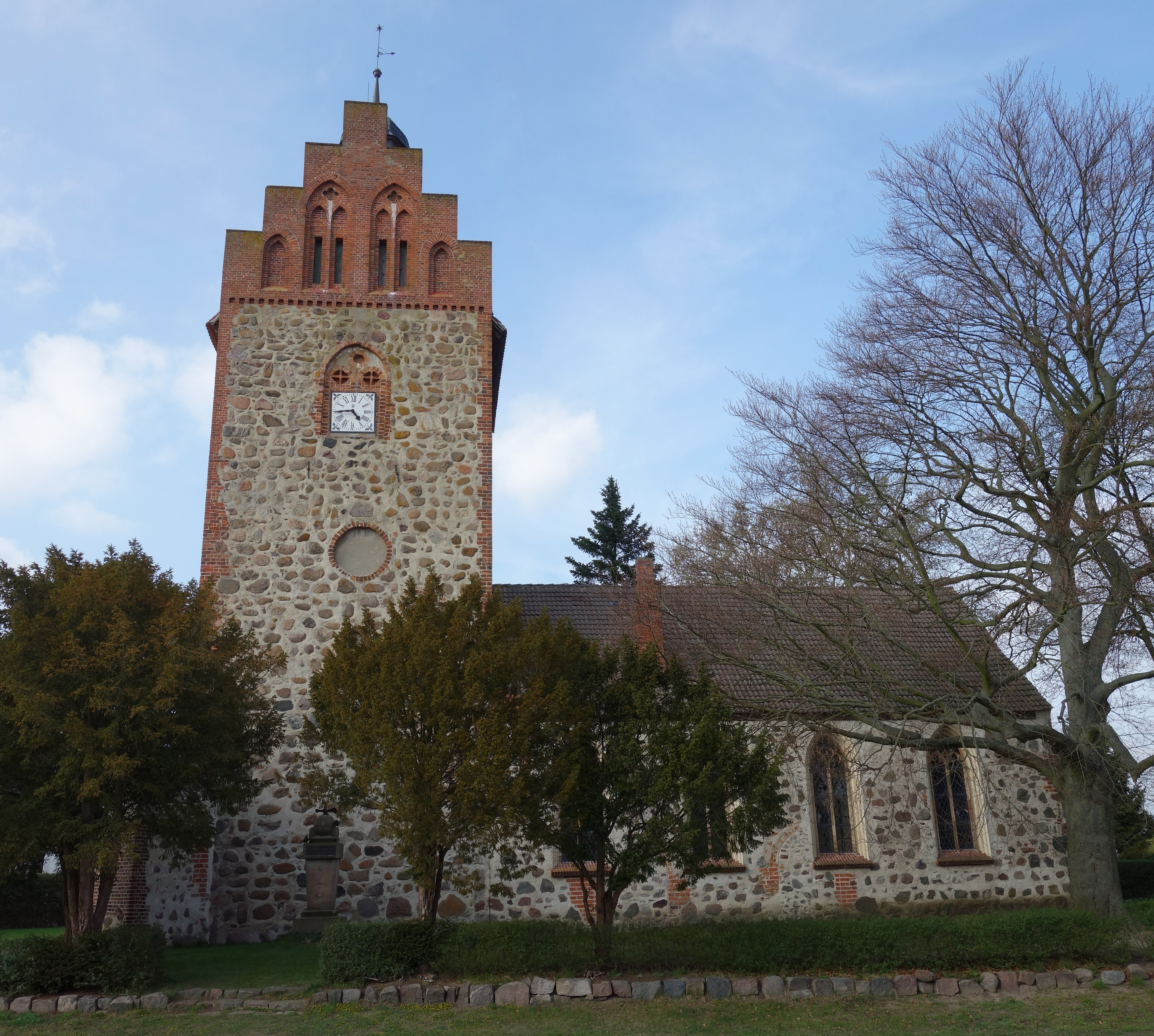 Southern view of church in Schönermark, Stüdenitz-Schönermark municipality, Ostprignitz-Ruppin district, Brandenburg state, Germany